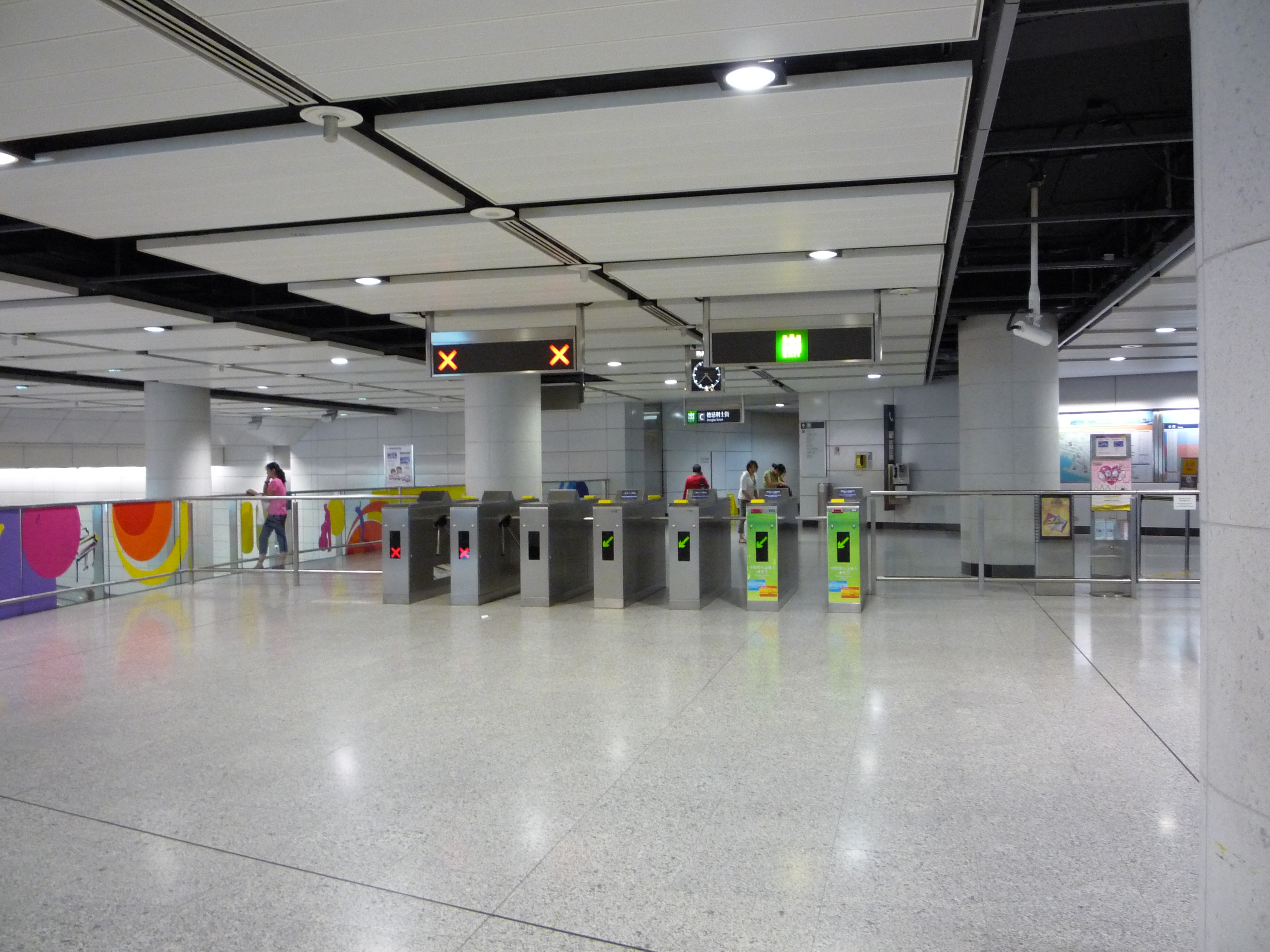 MTR Hong Kong Station Douglas Street Concourse